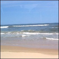 Example image showing normal field of vision.